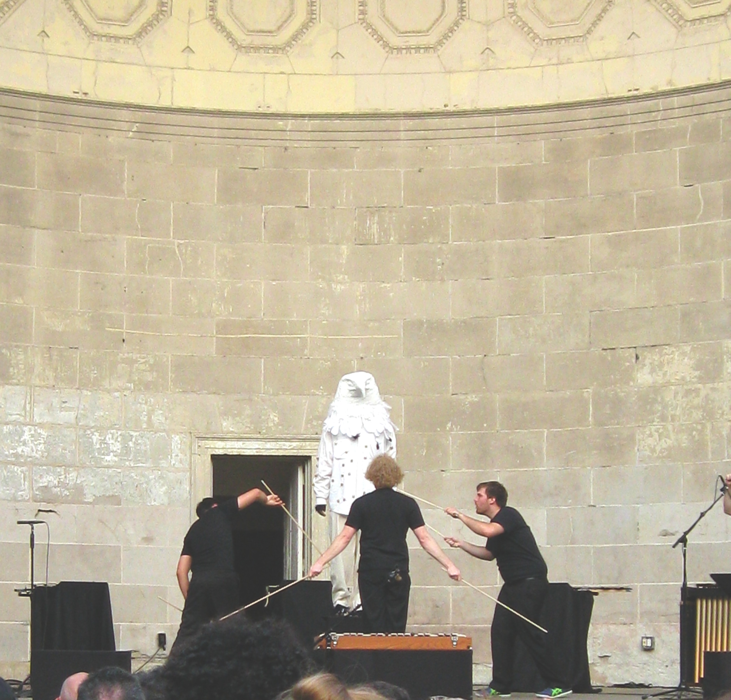 A performance by Iktus Percussion (Chris Graham, Josh Perry, Steve Sehman, Chris Howard, Piero Guimaraes, and Dennis Sullivan) with Derek Kwan (electronics) of Karlheinz Stockhausen's Musik im Bauch at the Naumberg Bandshell in Central Park, New York City, on Thursday, June 21, 2012. (Co-presented by Goethe-Institut and New York Virtuoso Singers as part of Make Music New York.) Section IV: "The three players begin a bizarre course, circling around Miron, first running very slowly and gradually becoming faster. Their hitting becomes more and more dense, until they create a dense rattling and tinkling of the bells and tramping on the floor, through an ecstatic dance with wild leaps".